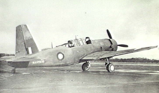 AWM caption : WILLIAMTOWN, NSW. C 1943. VULTEE VENGEANCE MKIV TWO- SEAT GENERAL PURPOSE DIVE- BOMBER AIRCRAFT A27-518. A TOTAL OF THREE HUNDRED AND TWENTY- TWO OF VARIOUS MARKS OF THIS TYPE OF AIRCRAFT WERE ON THE RAAF INVENTORY DURING WORLD WAR II AND WERE OPERATED BY NOS 12, 21, 23 AND 24 SQUADRONS AS WELL AS BY SEVERAL COMMUNICATION UNITS.